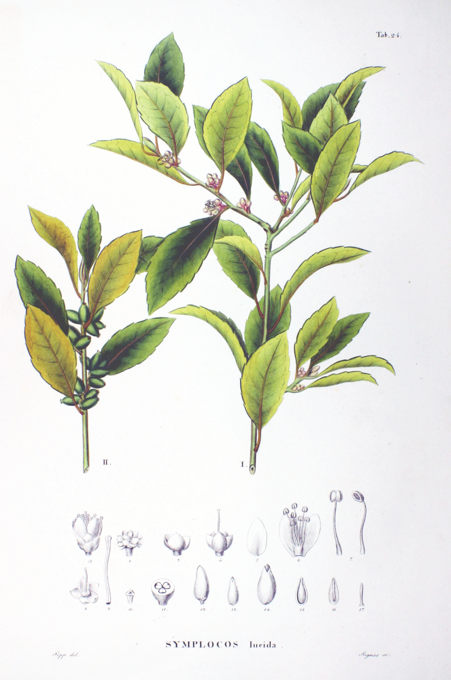 Plate from book